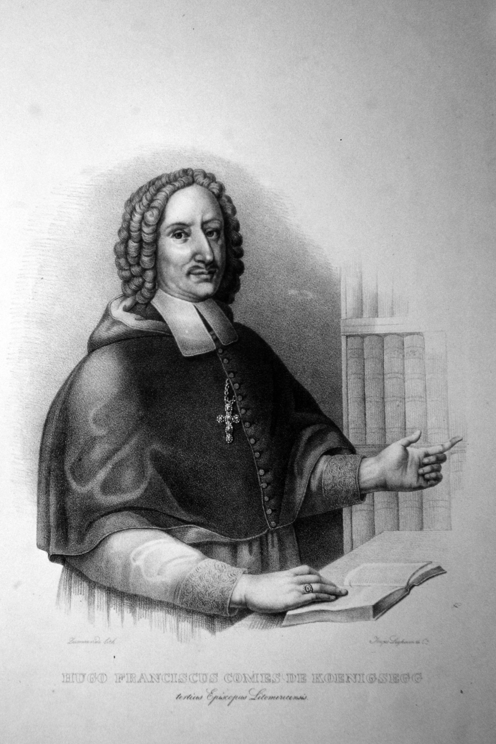 Hugo Franz Königsegg und Rothenfels (1680-1720), Bishop of Leitmeritz Lithograph by Zumsande, about 1820